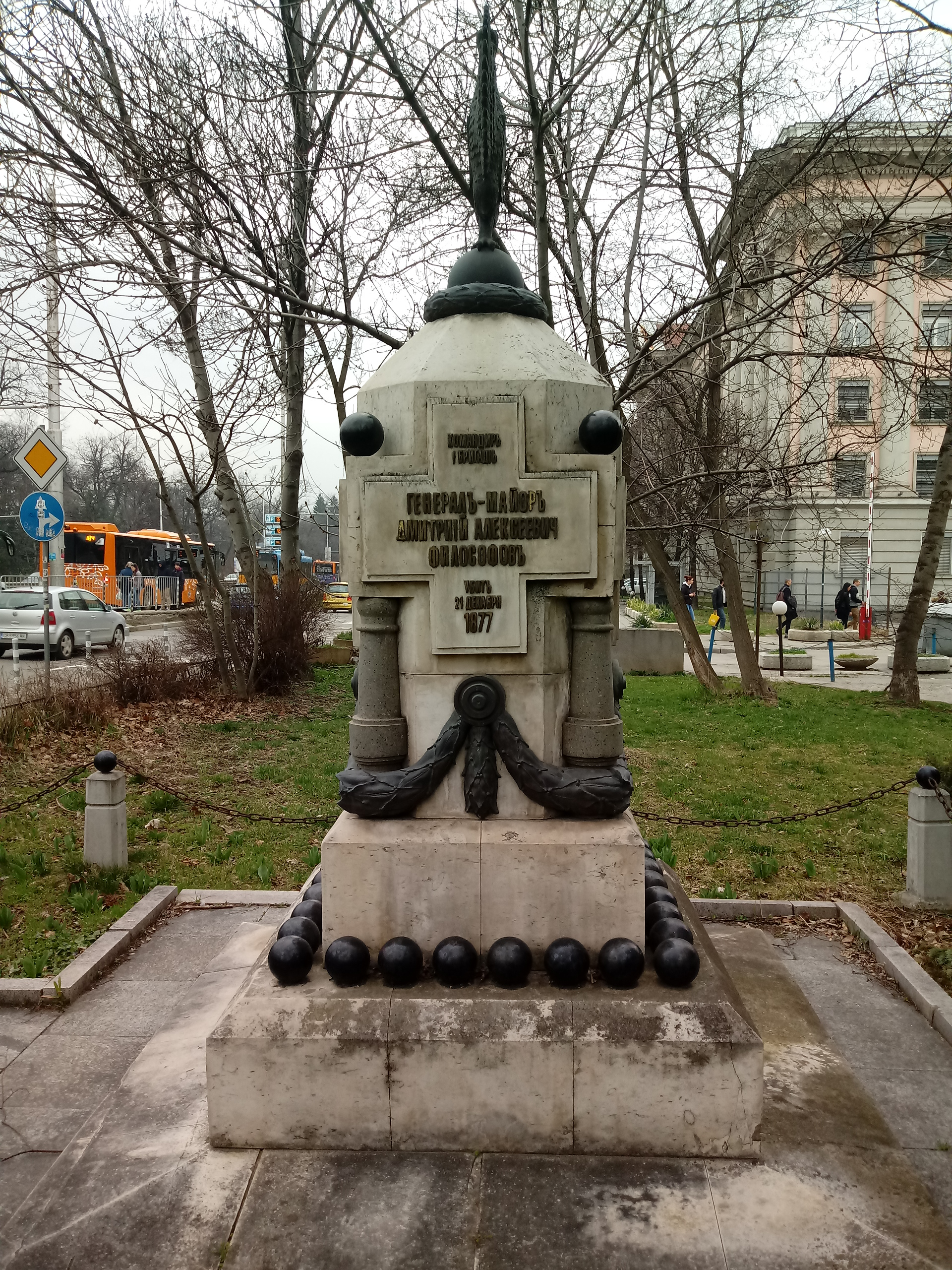 Memorial of 3rd Guardian Infantry Division, Sofia - in front of the Bulgarian News Agency. On the left side - memorial of General-major Dmitriy Alexeevich Filosofov